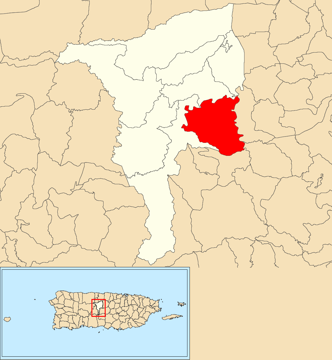 Pozas, Ciales, Puerto Rico locator map